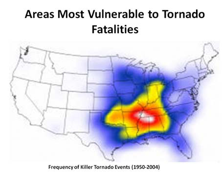 Map of casualty incidence in the Dixie Alley, a zone with a high number of tornadoes annually in United States. Although the number of storms is less than in the Tornado Alley, the number of strong to violent tornadoes is high and there is no defined season.